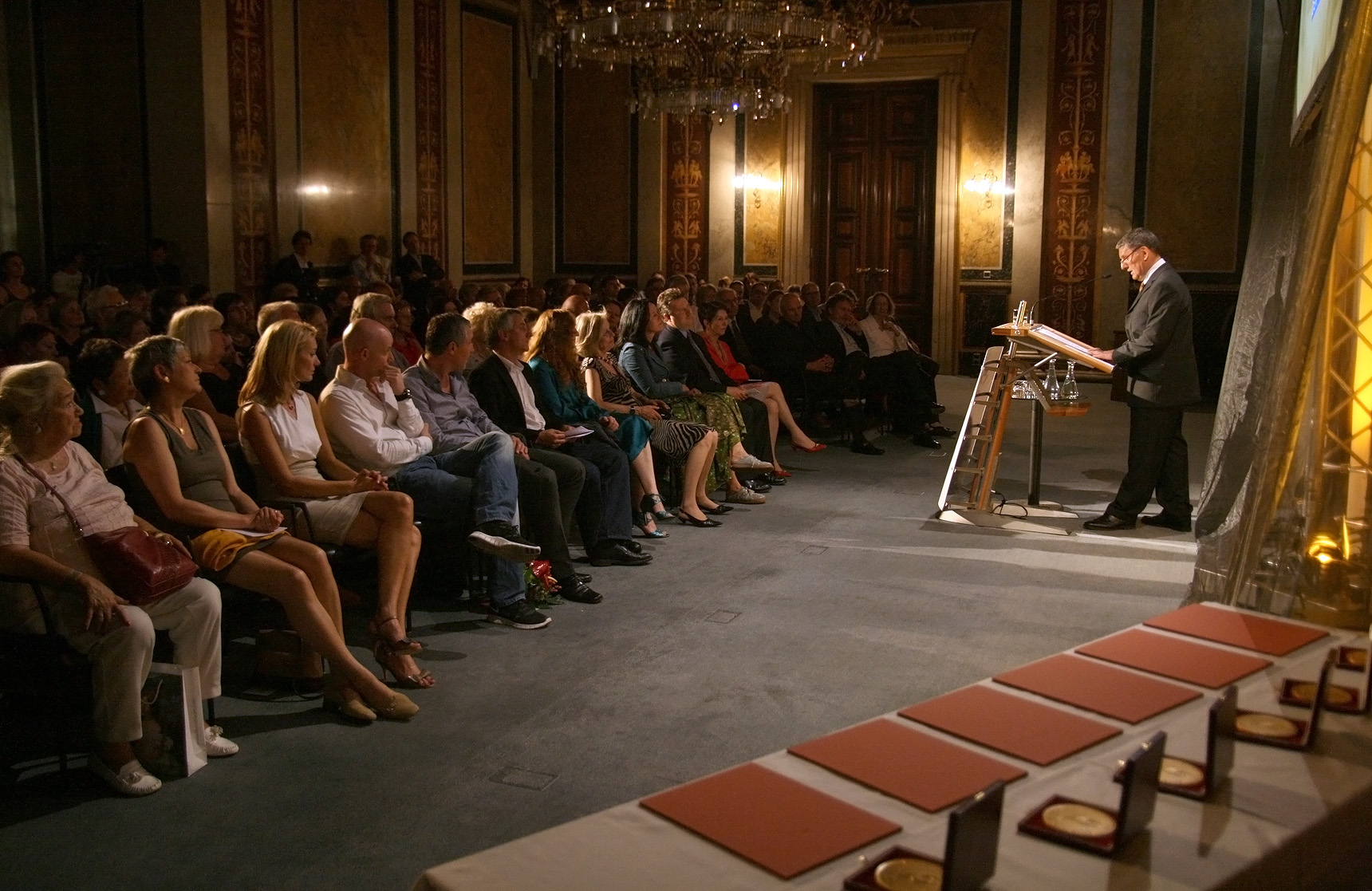 Wilhelm Filla, 43. Fernsehpreis der Österreichischen Erwachsenenbildung at the Budget Hall of the Austrian Parliament Building in Vienna.